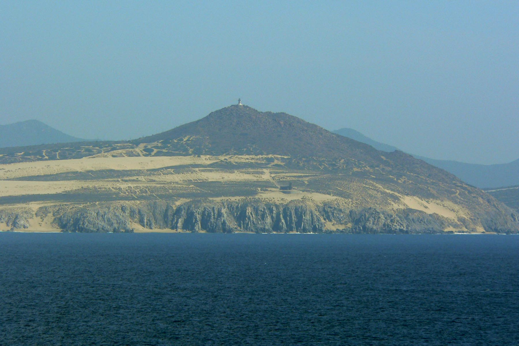 Photo of Cabo Falso from southwest near Cabo San Lucas, Mexico